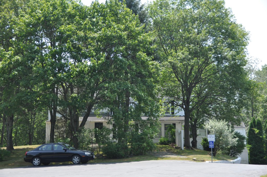 A photograph of the historic Benjamin Wellington House in Waltham, Massachusetts.